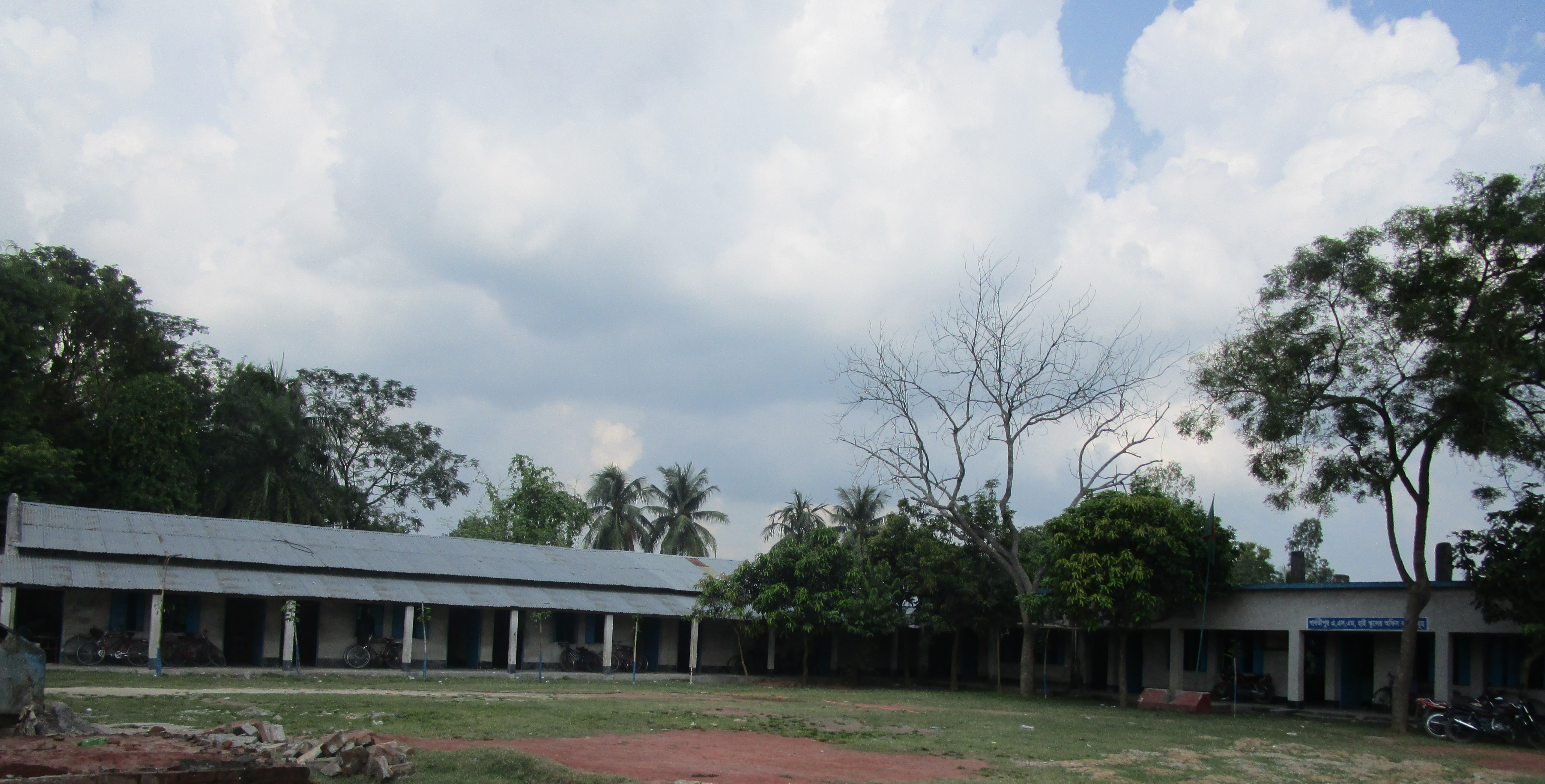 The Main Buildings of Abdus Shafi Memorial High School, Parbatipur.